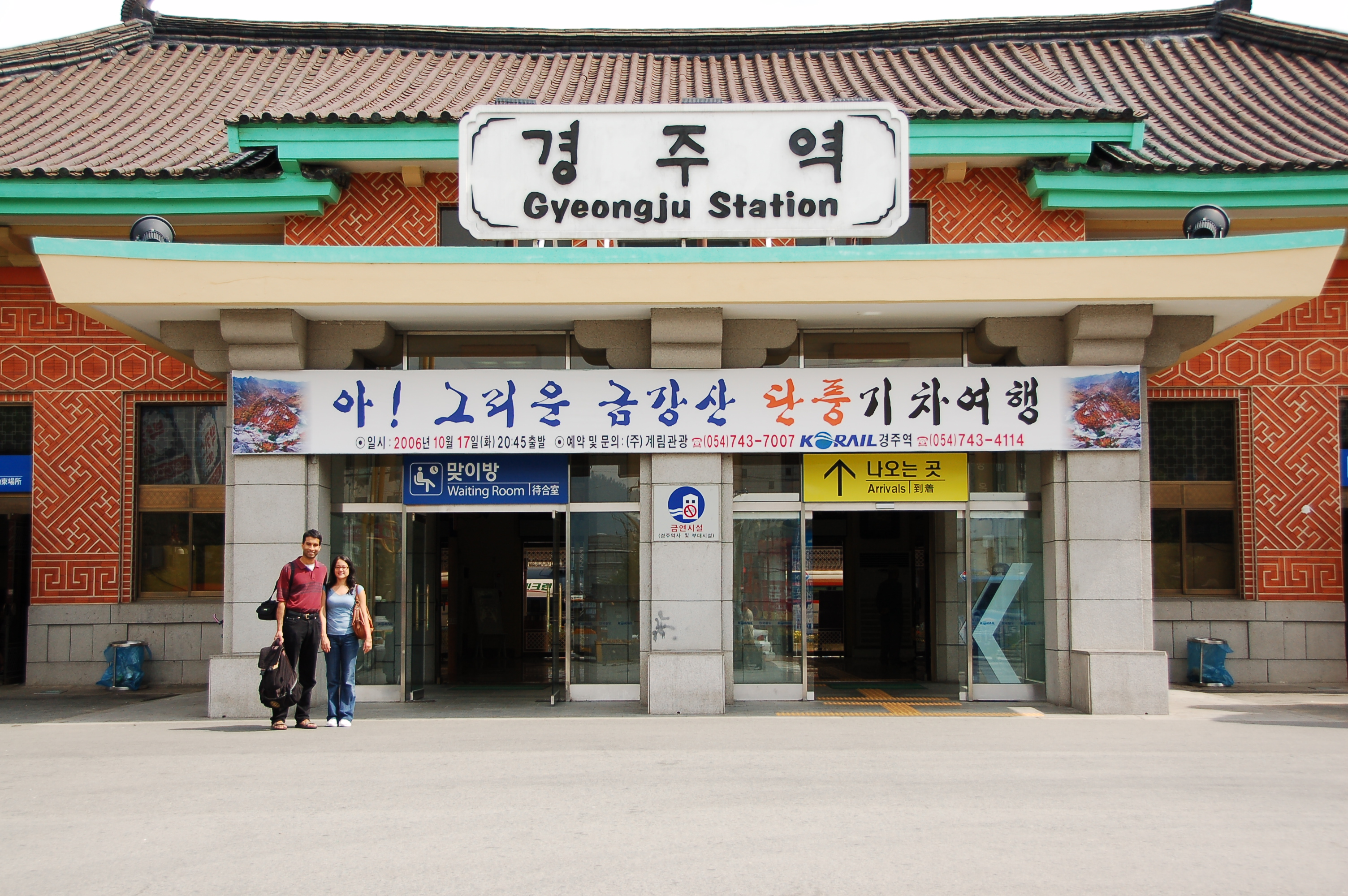 Gyeongju Station, Gyeongju, South Korea